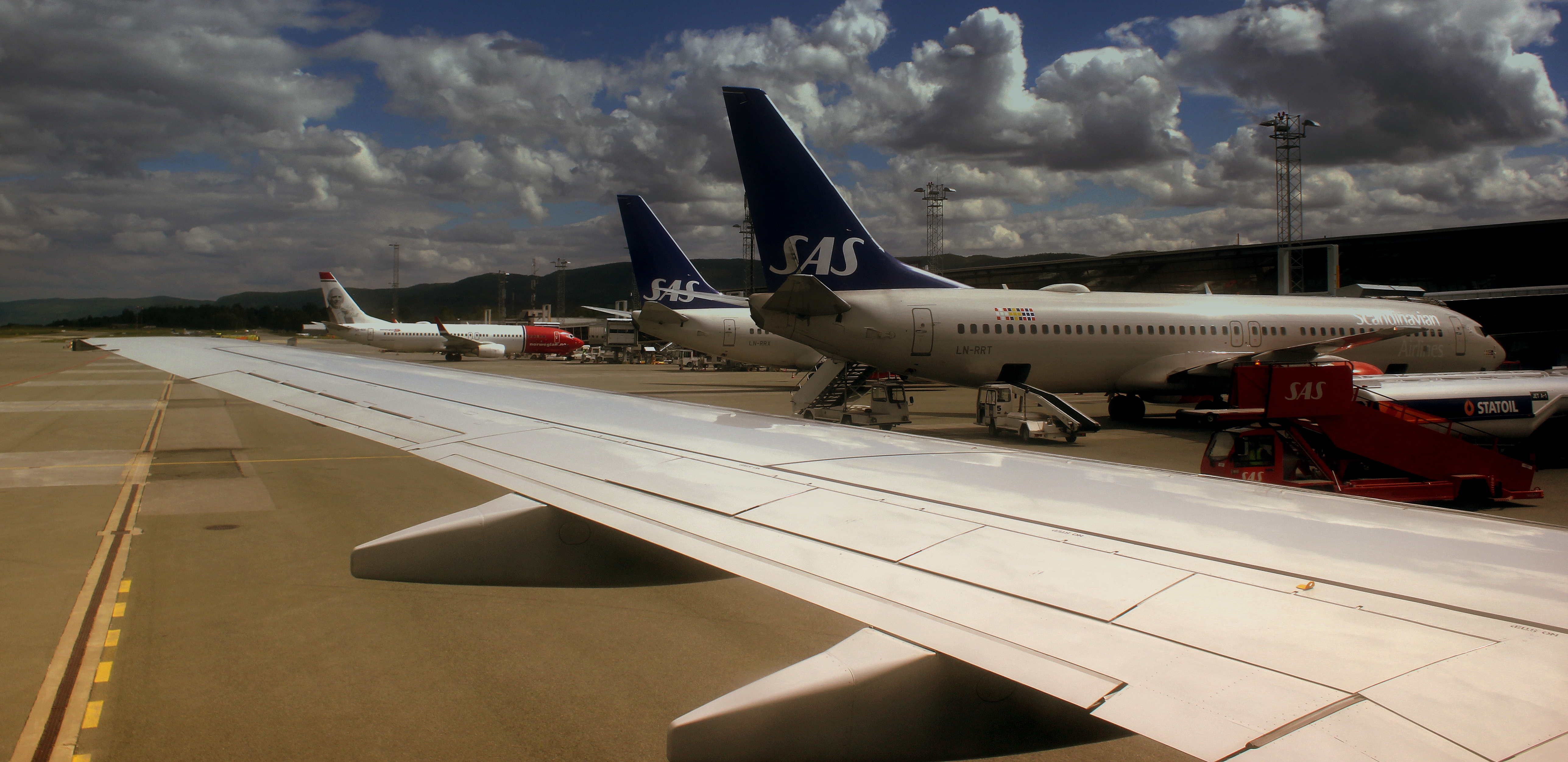 SAS FLIGHT SK4573 LN-RPB BOEING 737-600 TRONDHEIM AIRPORT NORWAY JUNE 2014